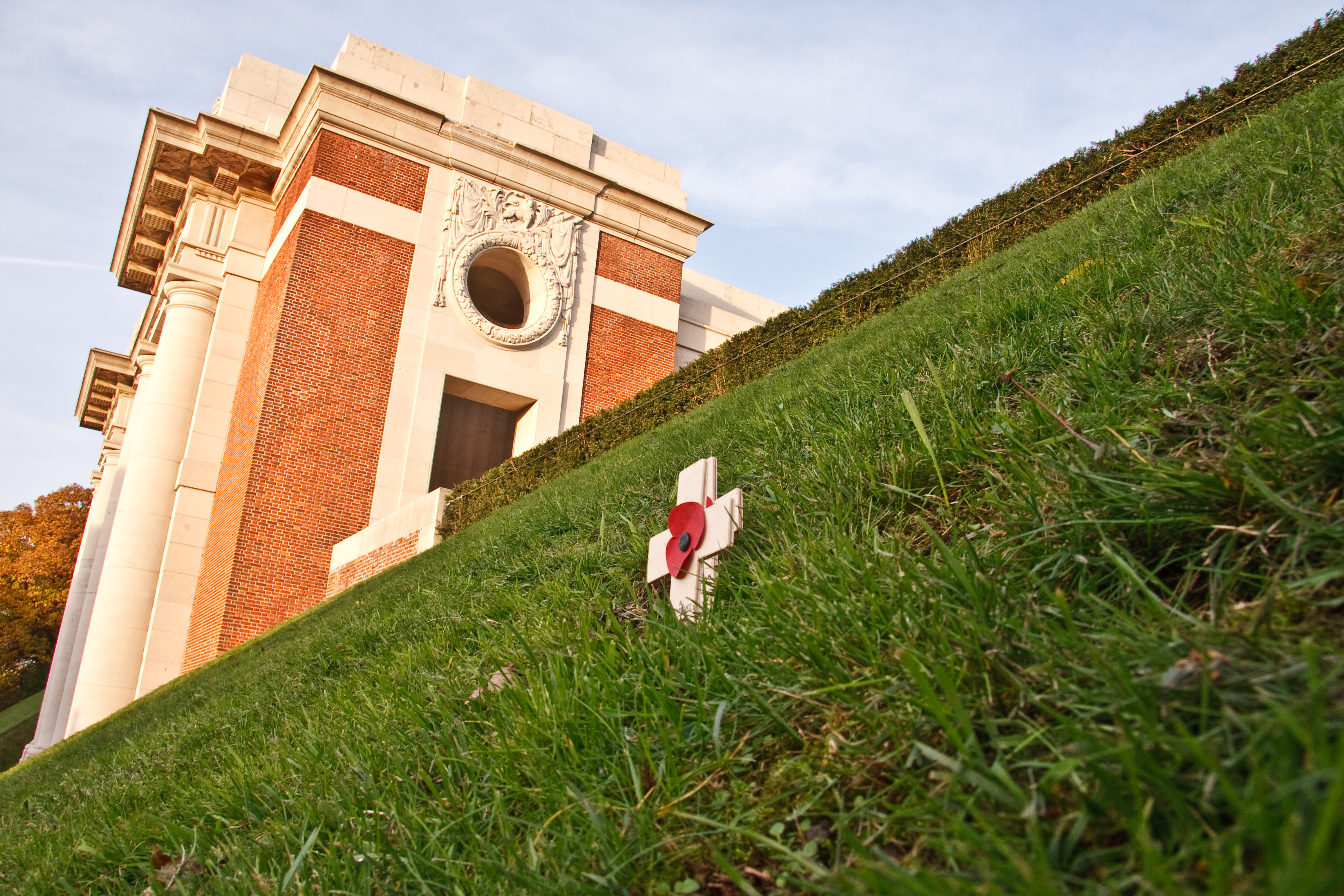 the Menin city gate from Ieper, build in 1927